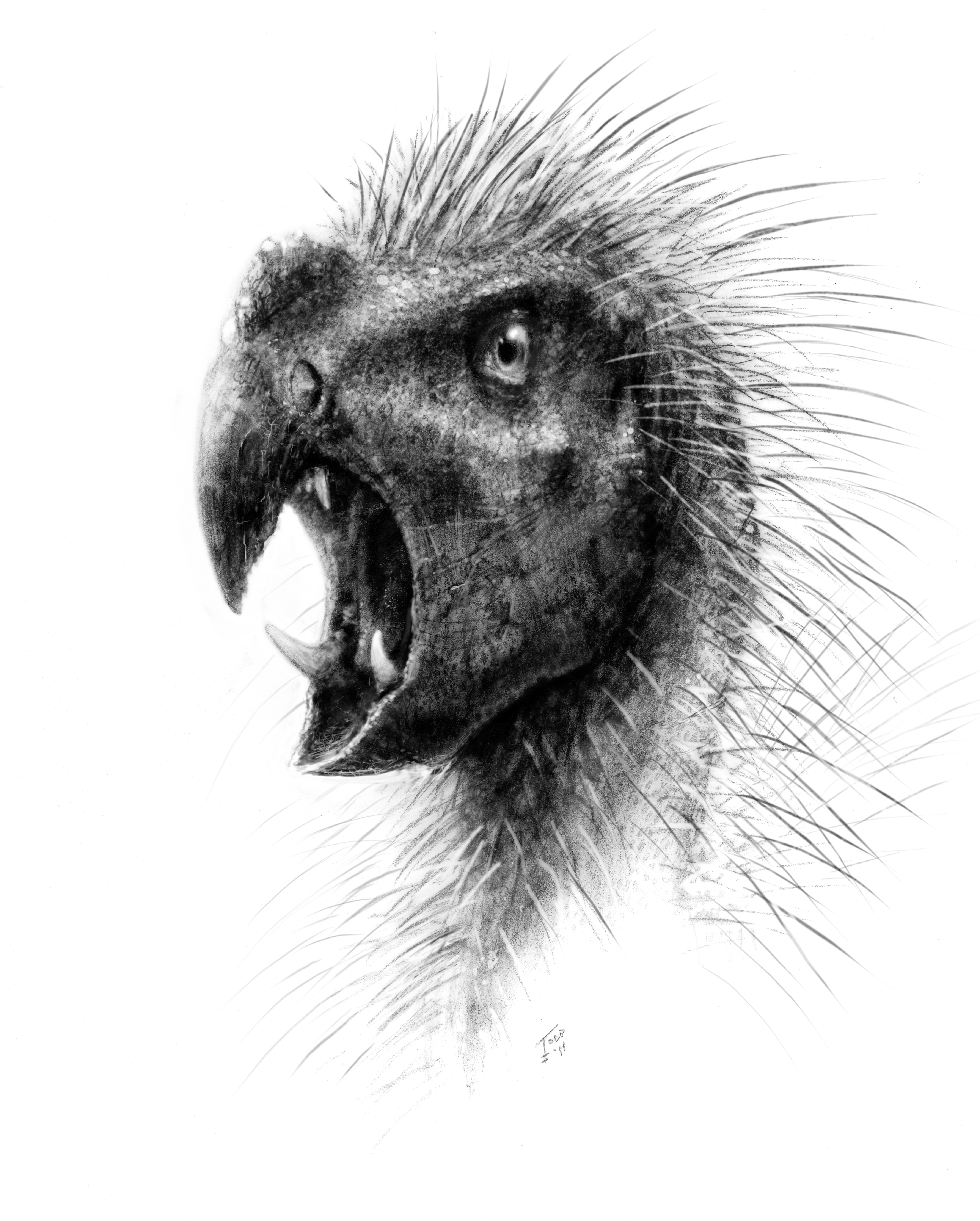 An artistic reconstruction of Pegomastax africana